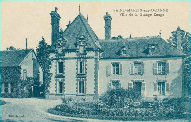 St-Martin-sur-Ouanne, Yonne, France. Villa de la Grange Rouge (Red Barn villa), which used to be owned by the Templar knights. Several "villas de la Grange Rouge" exist in the surrounding villages (one is in Prunoy, another in Charny, possibly elsexhere too). The name comes from their red cross being stamped on the barn doors. They ran iron ore mines and workshops (the local iron was not of the best quality but still good enough to be worth the work), a common and flourishing industry in this area from the highest Antiquity to the Middle Ages.